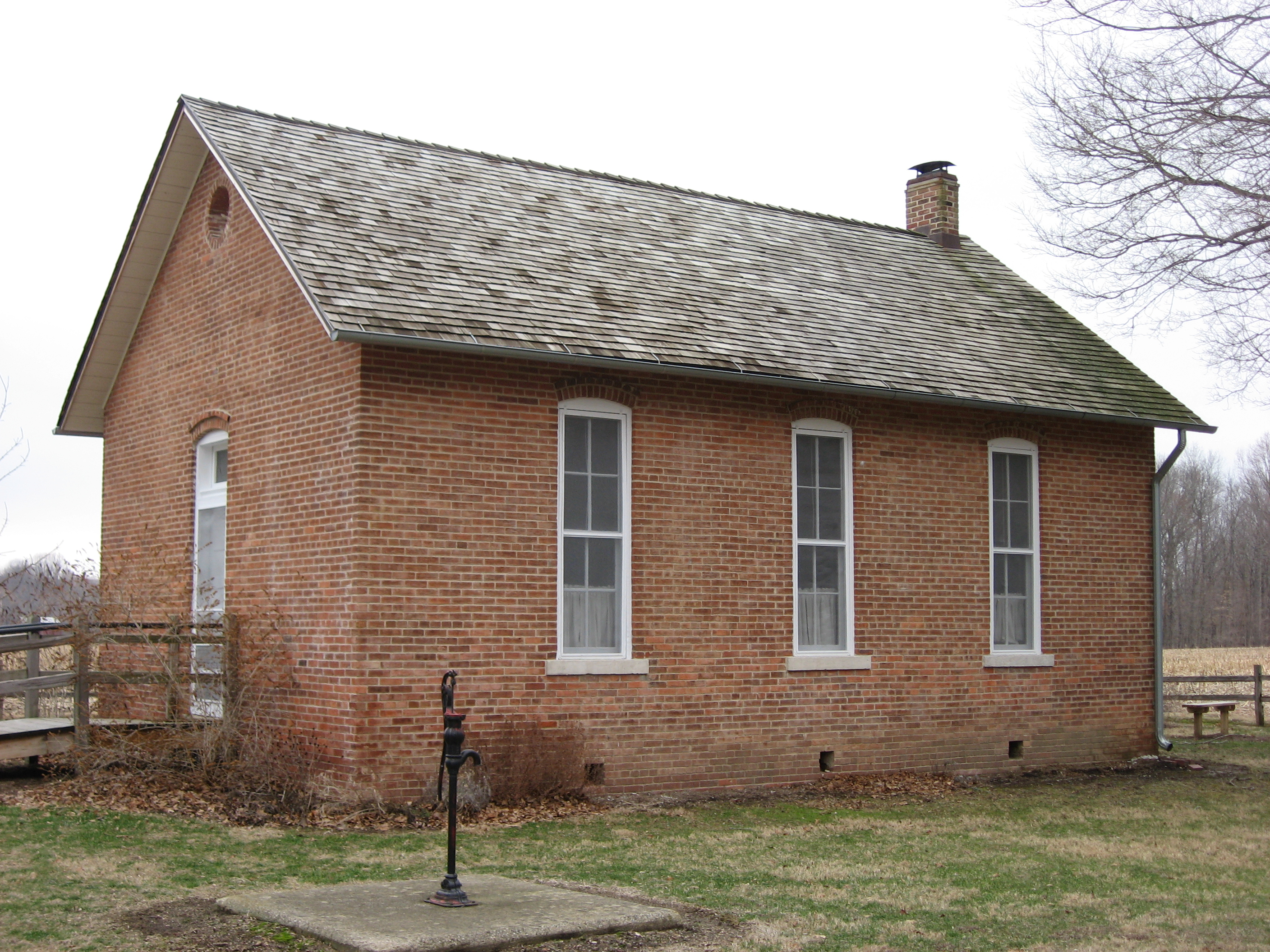 Western side and northern end of the Cross School, located on the southeastern corner of the intersection of Voiles and Townsend Roads southeast of Martinsville in Washington Township, Morgan County, Indiana, United States. Built in 1856, it is listed on the National Register of Historic Places.